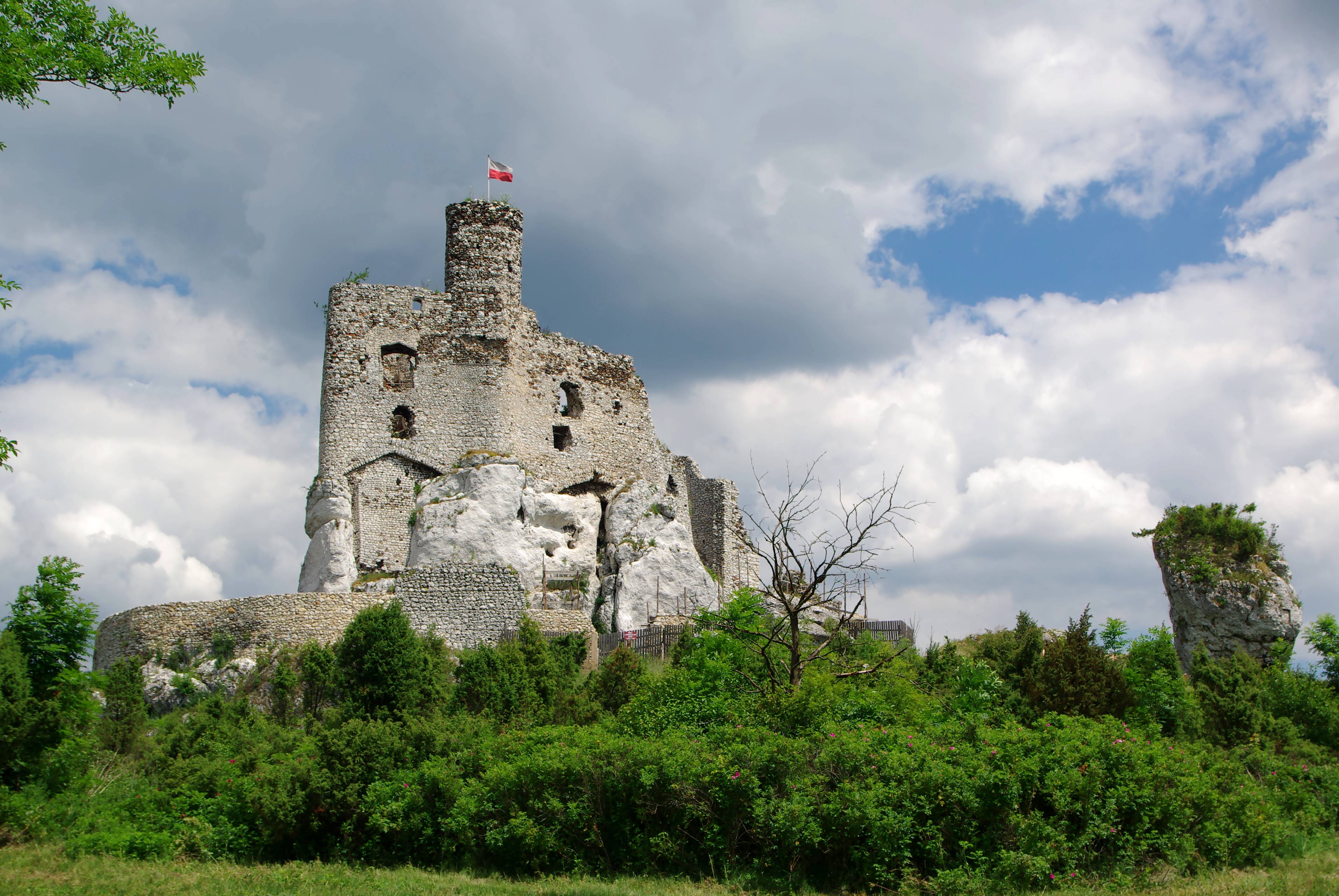 Mirów Castle